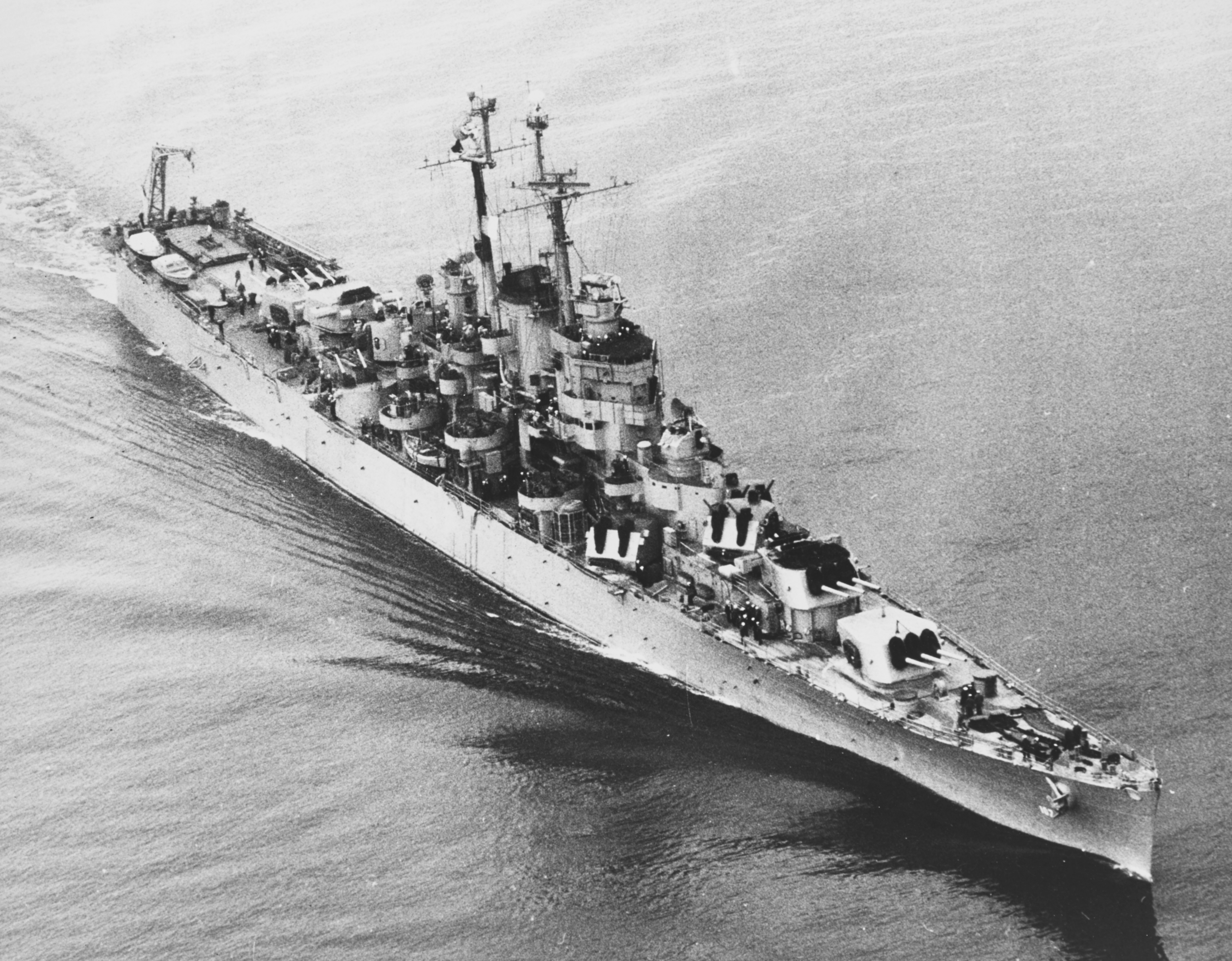 The U.S. Navy light cruiser USS Huntington (CL-107) underway on 12 April 1948.